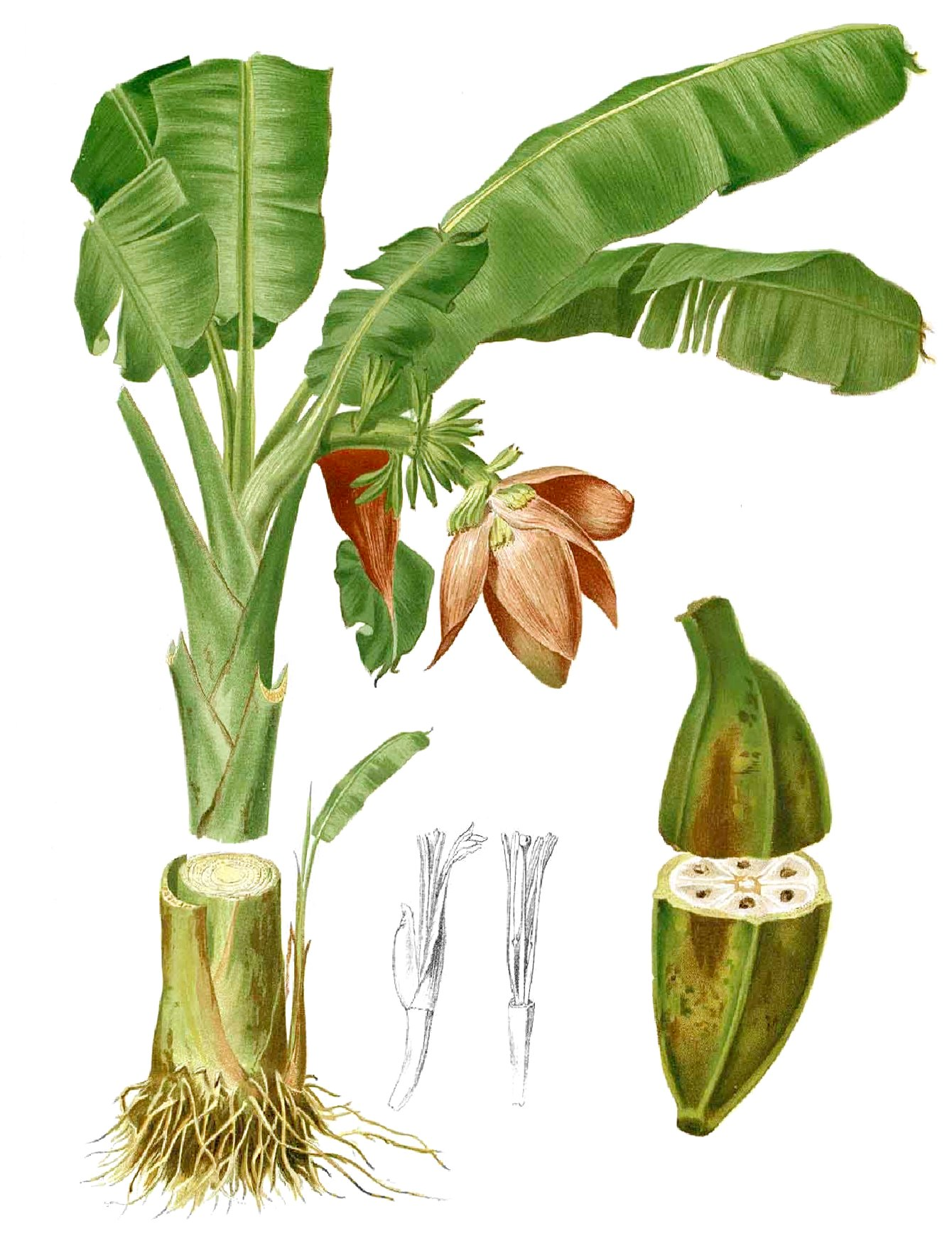 Musa troglodytarum Plate from book